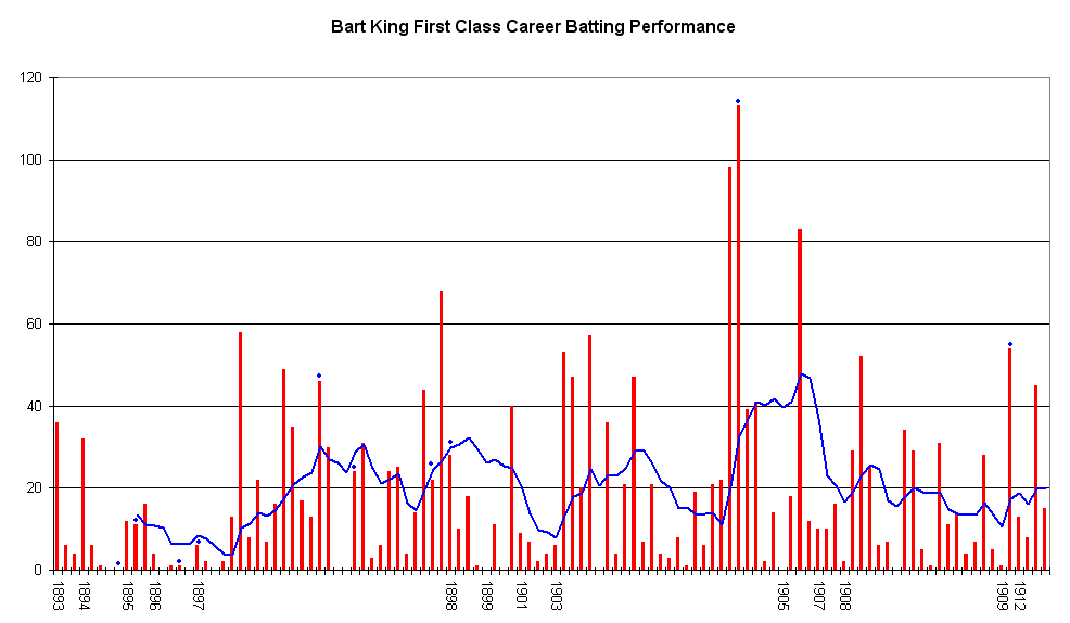 This graph details the First-class performance of Bart King. It was created by Raven4x4x. The red bars indicate the player's innings, while the blue line shows the average of the ten most recent innings at that point. Note that this average cannot be calculated for the first nine innings. The blue dots indicate innings in which King finished not-out. This graph was generated with Microsoft Excel 2002, using data from .